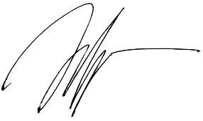 Signature of Vladimir Zhirinovsky.